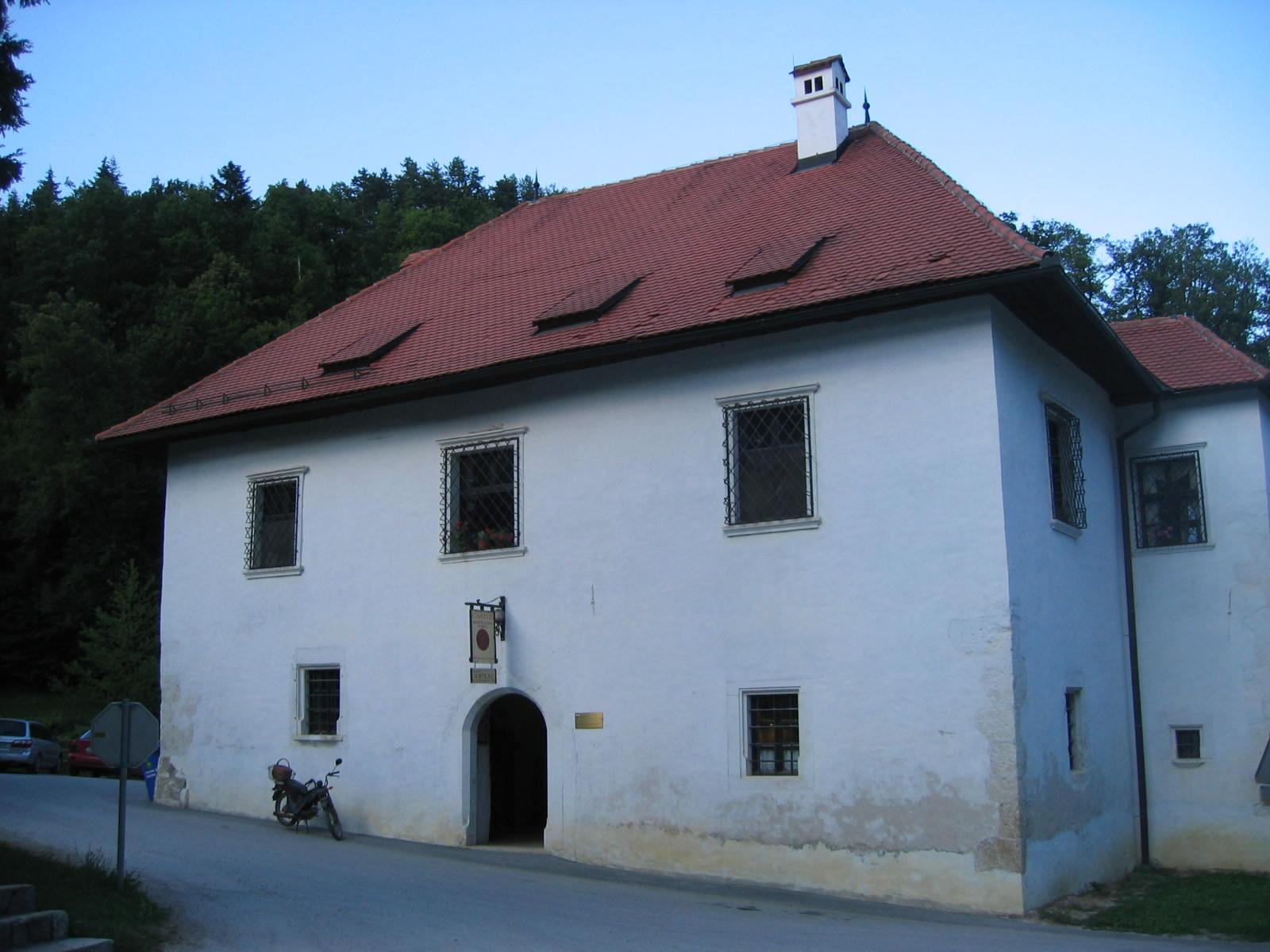 Oldest restaurant in Slovenia (near Carthusian monastery Žiče), since 1467 photo:Ziga 09:16, 13 August 2006 (UTC)